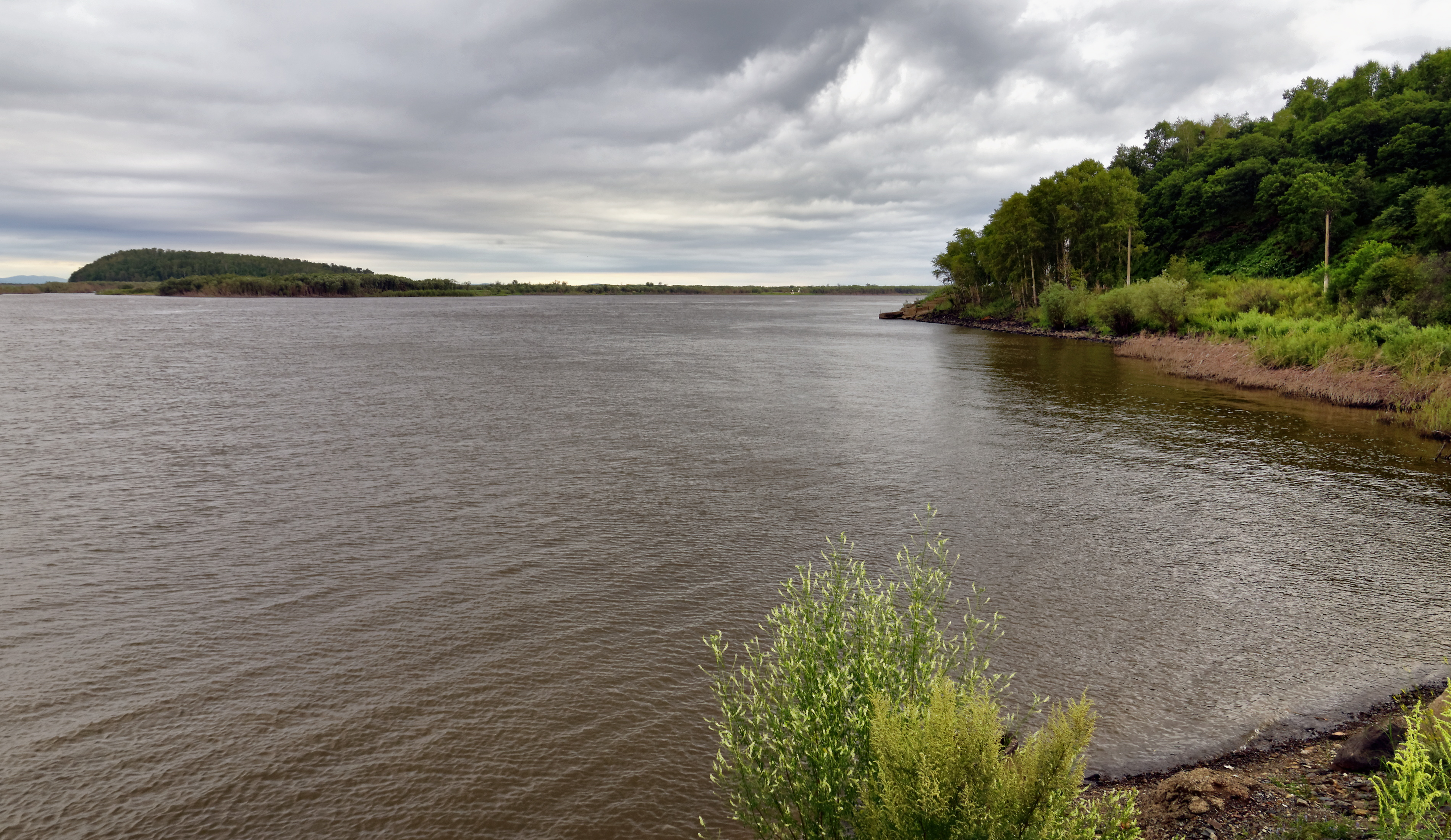 Amursk. Amur River